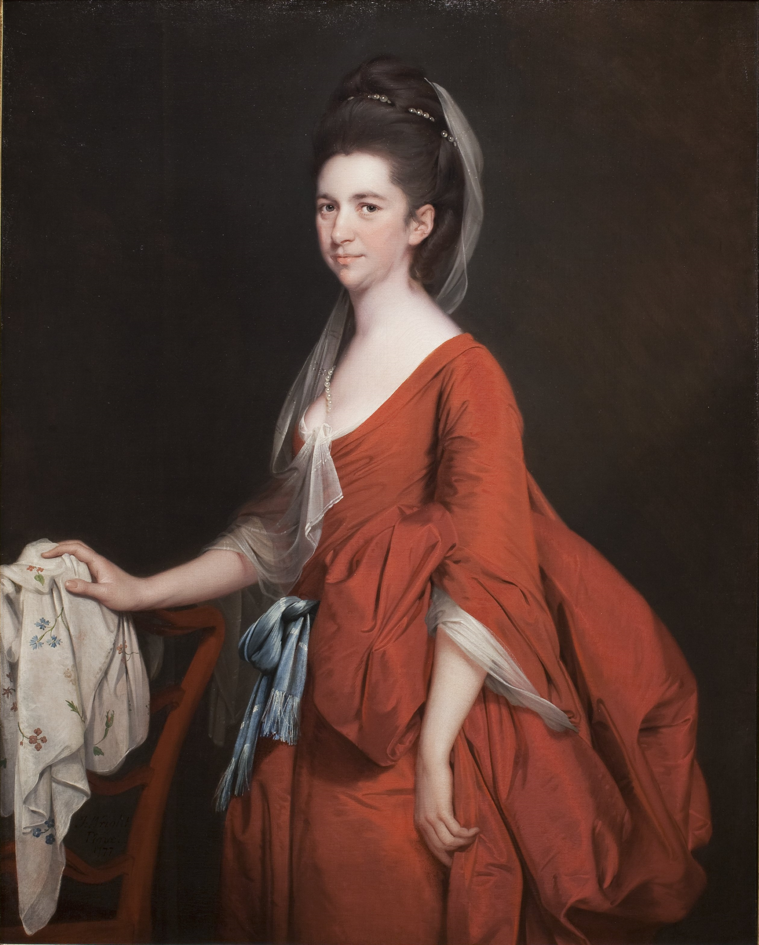 Portrait of Dorothy Beridge, nèe Gladwin (d.1792), possibly a sister of Major General Henry Gladwin (1729/30-1791) of Stubbing Court, Derbyshire, who married Frances Beridge, a daughter of Rev. John Beridge.